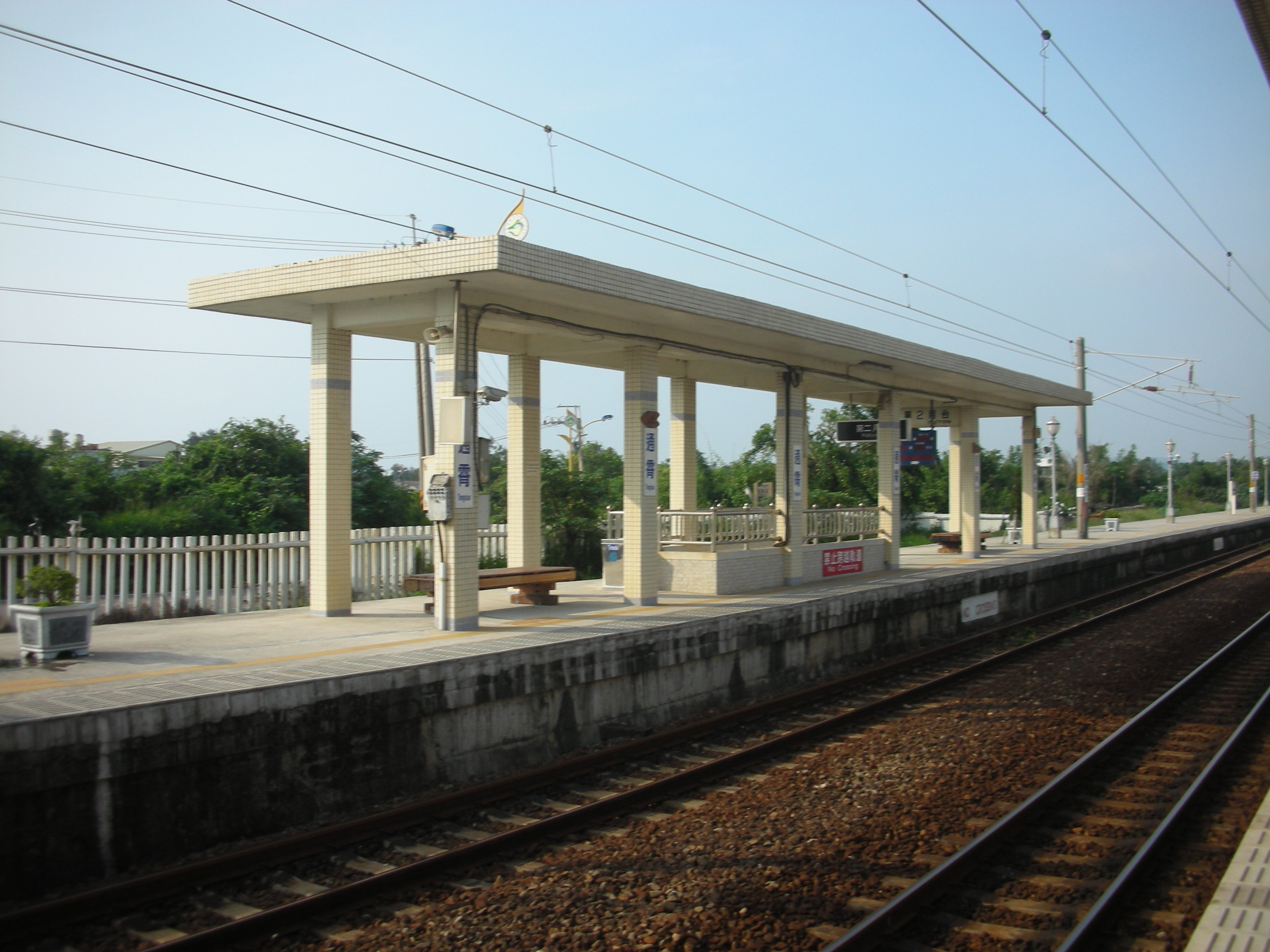 通霄車站月台 Tongxiao Station Platform